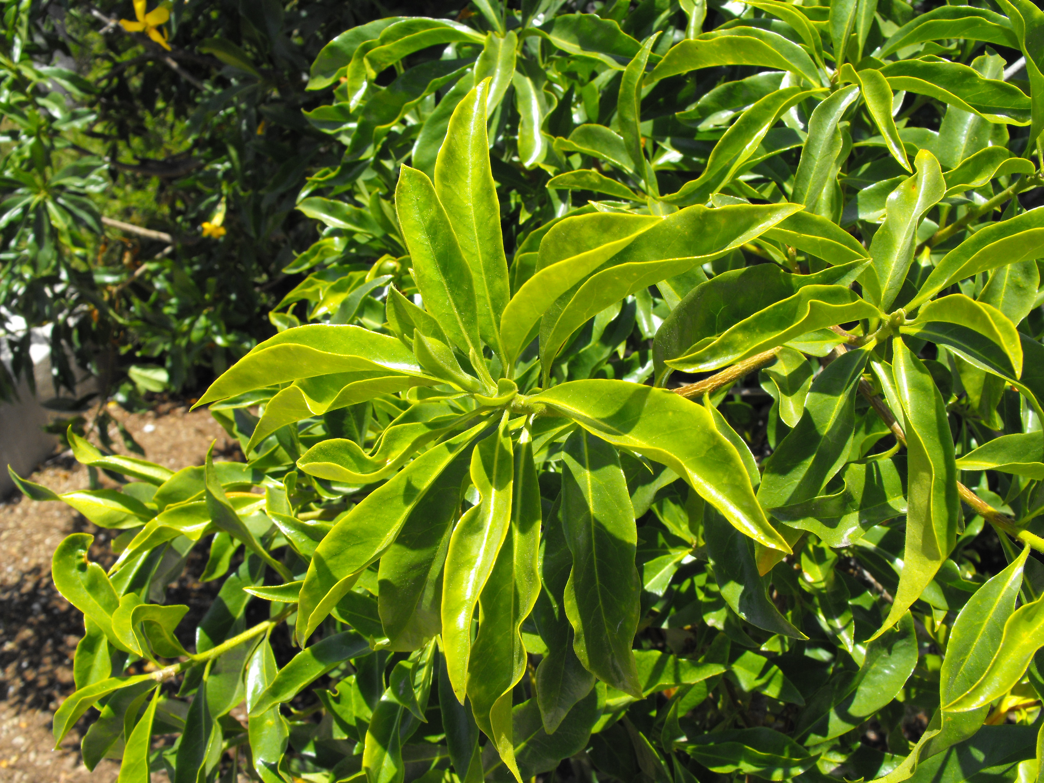 Hymenosporum flavum at the Water Conservation Garden at Cuyamaca College in El Cajon, California, USA.